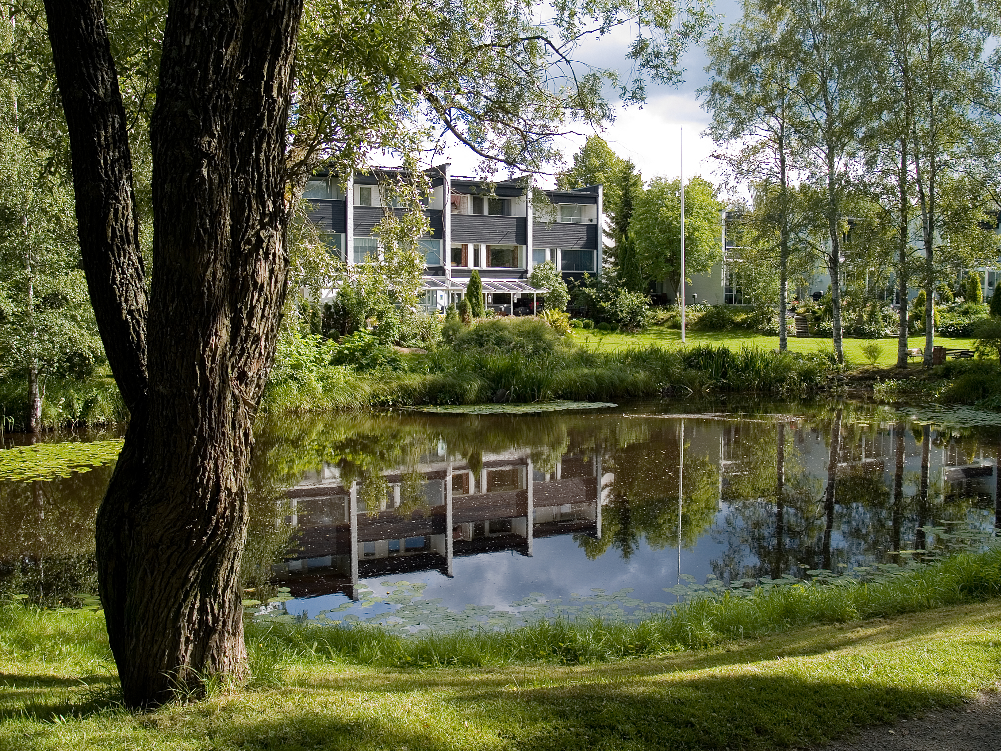 The Pajuluoma creek flows through Seinäjoki city centre.